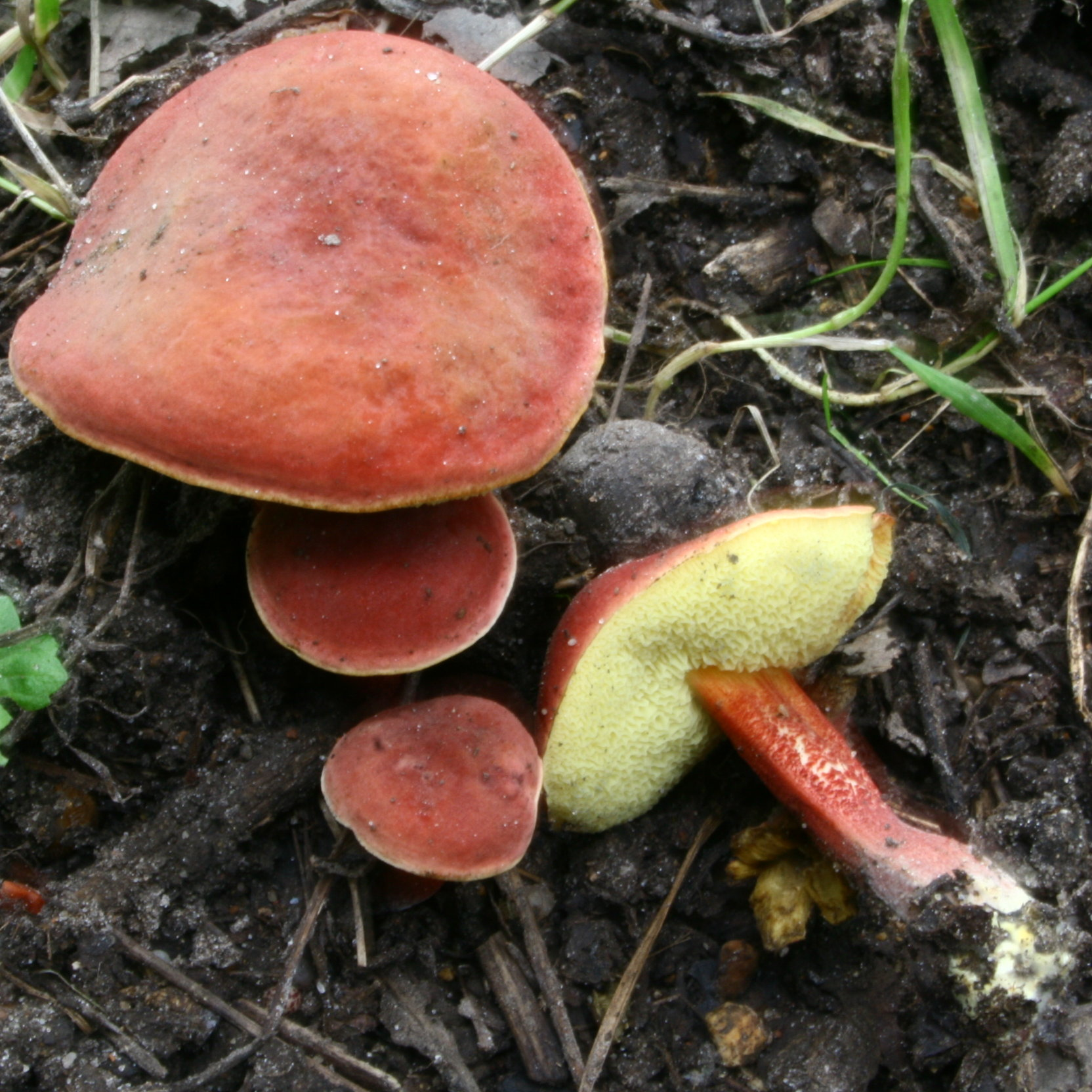 Boletus rubellus by a path in the Forêt de Sénart near Paris, France.